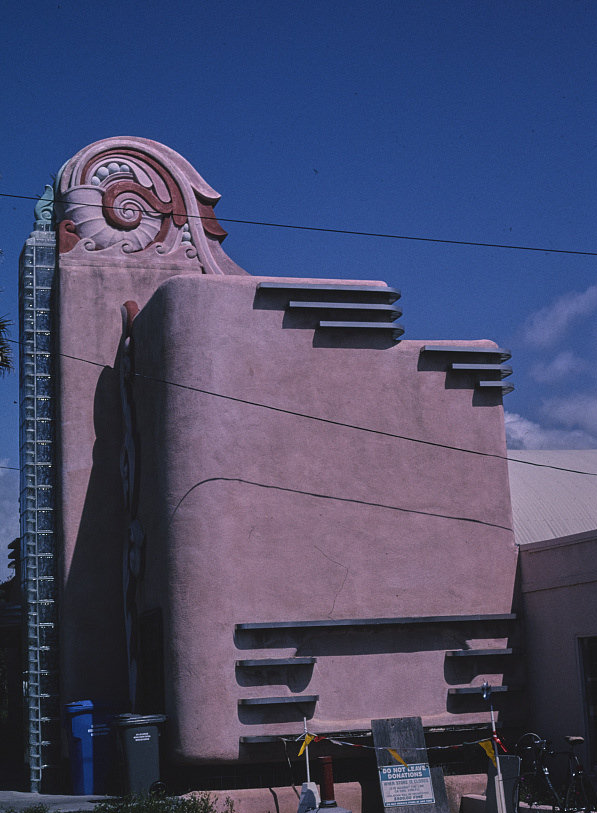 Margolies, John,, photographer. Retro deco building, Route 41, Morro Bay, California 2003. 1 photograph : color transparency ; 35 mm (slide format). Notes: Title, date and keywords based on information provided by the photographer. Margolies categories: General commercial buildings; Main Street. Please use digital image: original slide is kept in cold storage for preservation. Credit line: John Margolies Roadside America photograph archive (1972-2008), Library of Congress, Prints and Photographs Division. Purchase; John Margolies 2008 (DLC/PP-2008:109-2). Forms part of: John Margolies Roadside America photograph archive (1972-2008). Subjects: Commercial facilities--2000-2010. United States--California--Morro Bay. Format: Slides--2000-2010.--Color For more information, see "John Margolies Roadside America Photograph Archive - Rights and Restrictions Information" Repository: Library of Congress, Prints and Photographs Division, Washington, D.C. 20540 USA, Part Of: Margolies, John John Margolies Roadside America photograph archive (DLC) 2010650110 General information about the John Margolies Roadside America photograph archive is available at Higher resolution image is available (Persistent URL): Call Number: LC-MA05- 1074